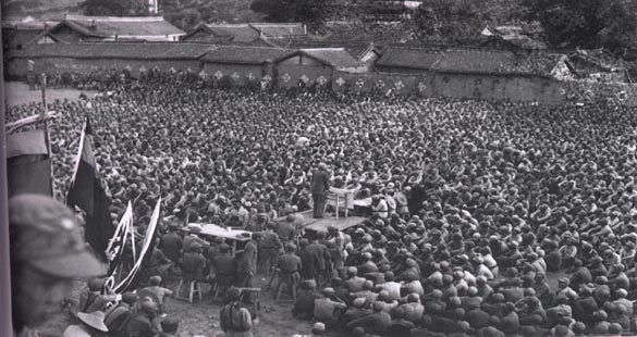 A Communist cadre leader addressing survivors. Source: ("no rights reserved")